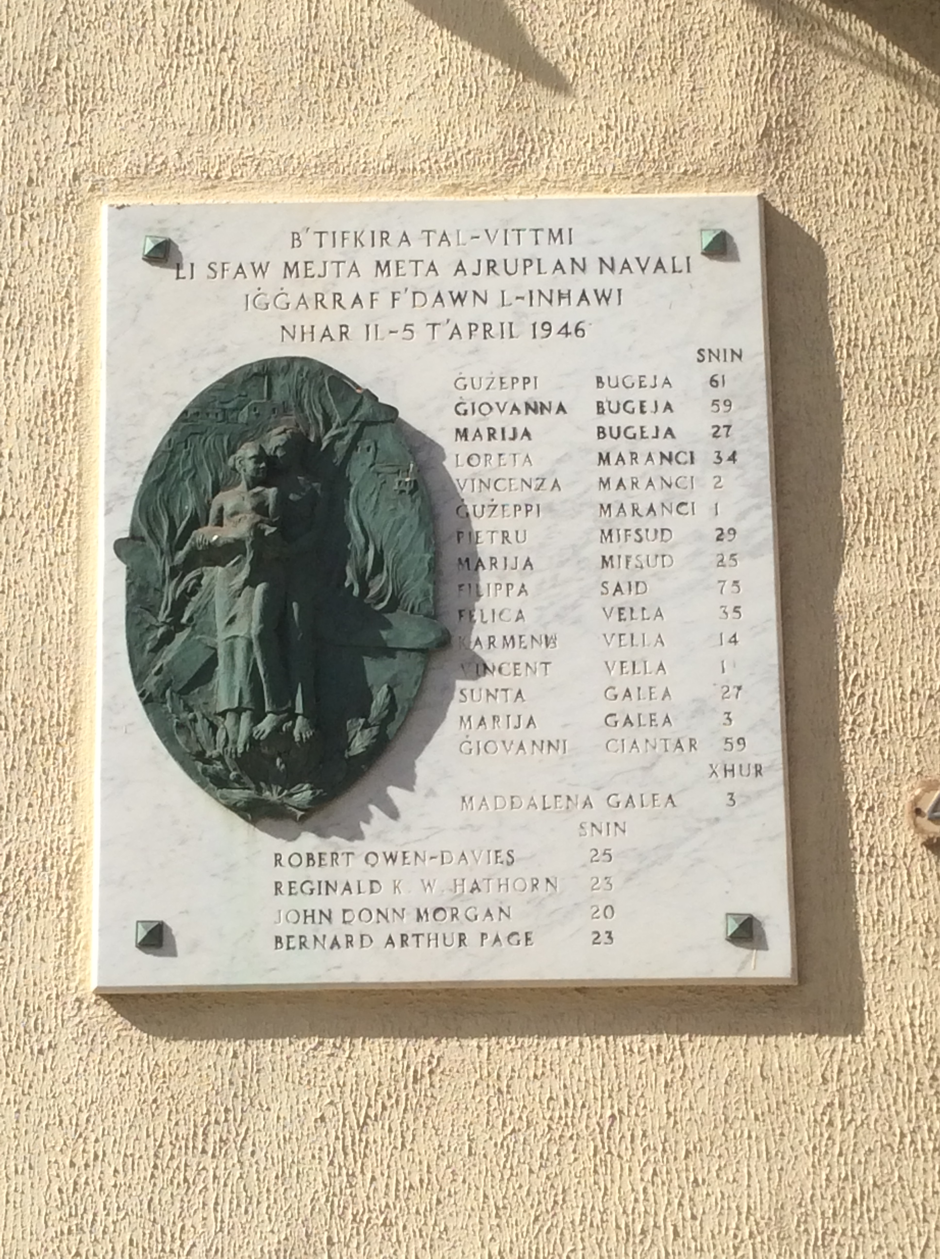 Rabat walk 2017